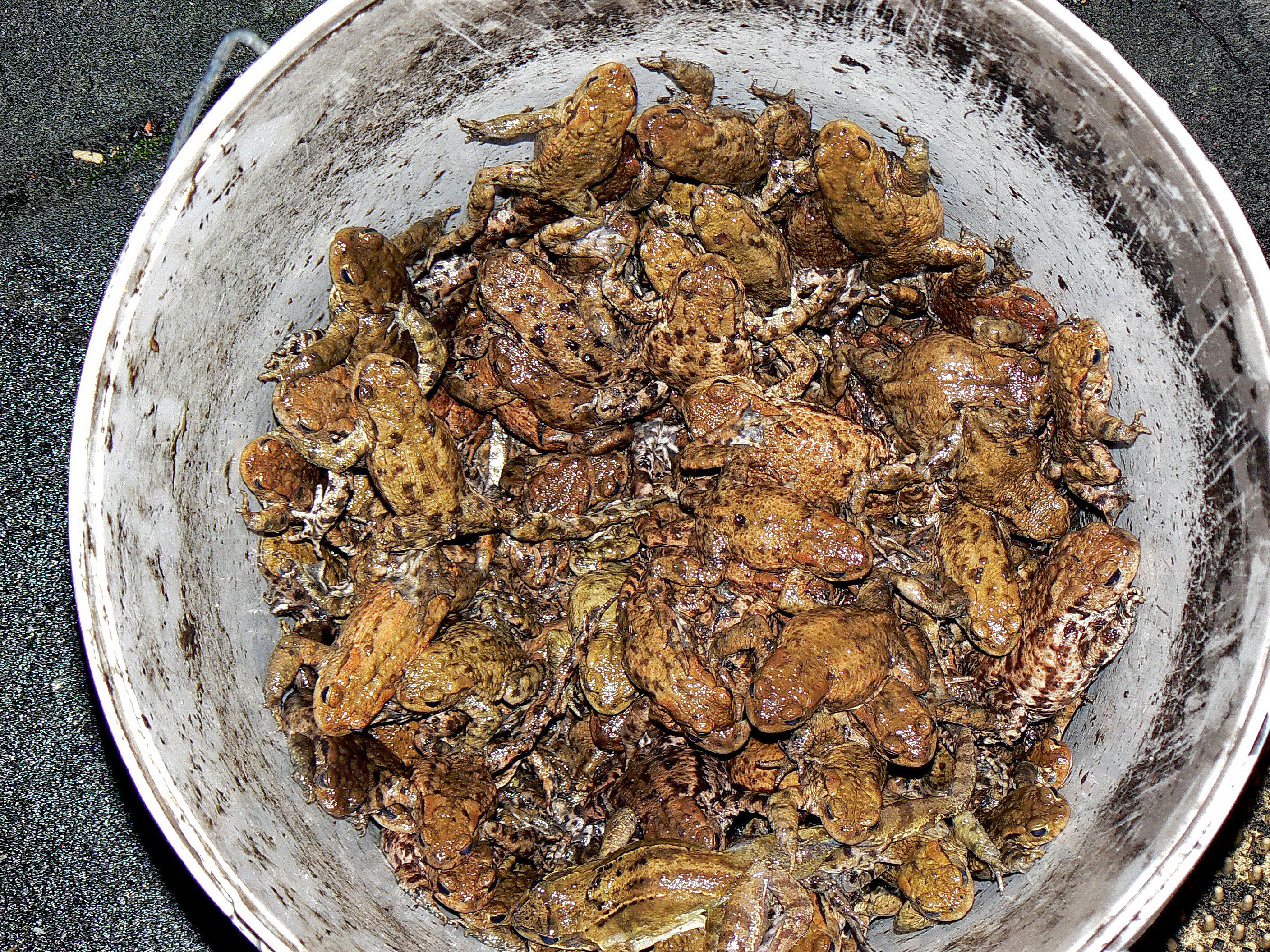 Bucket with many toads (Bufo bufo) and at least one frog (Rana temporaria); Belgium